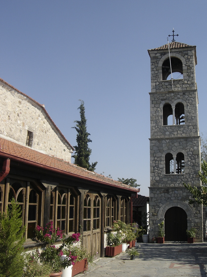 The Prophet Elias' monastery, in Livadi, Pieria.